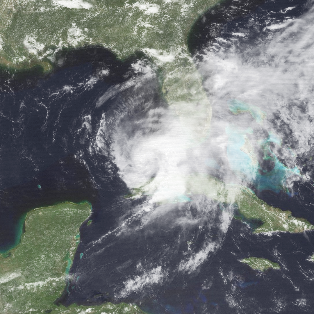 Hurricane Alberto at peak intensity in the Straits of Florida on June 3, 1982